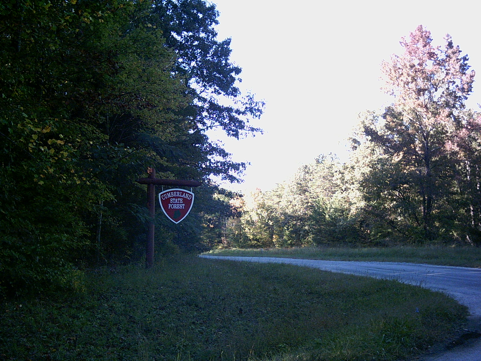 Image taken by me for Wikipedia.